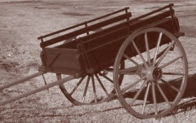 Spring cart as used by Australian farmers